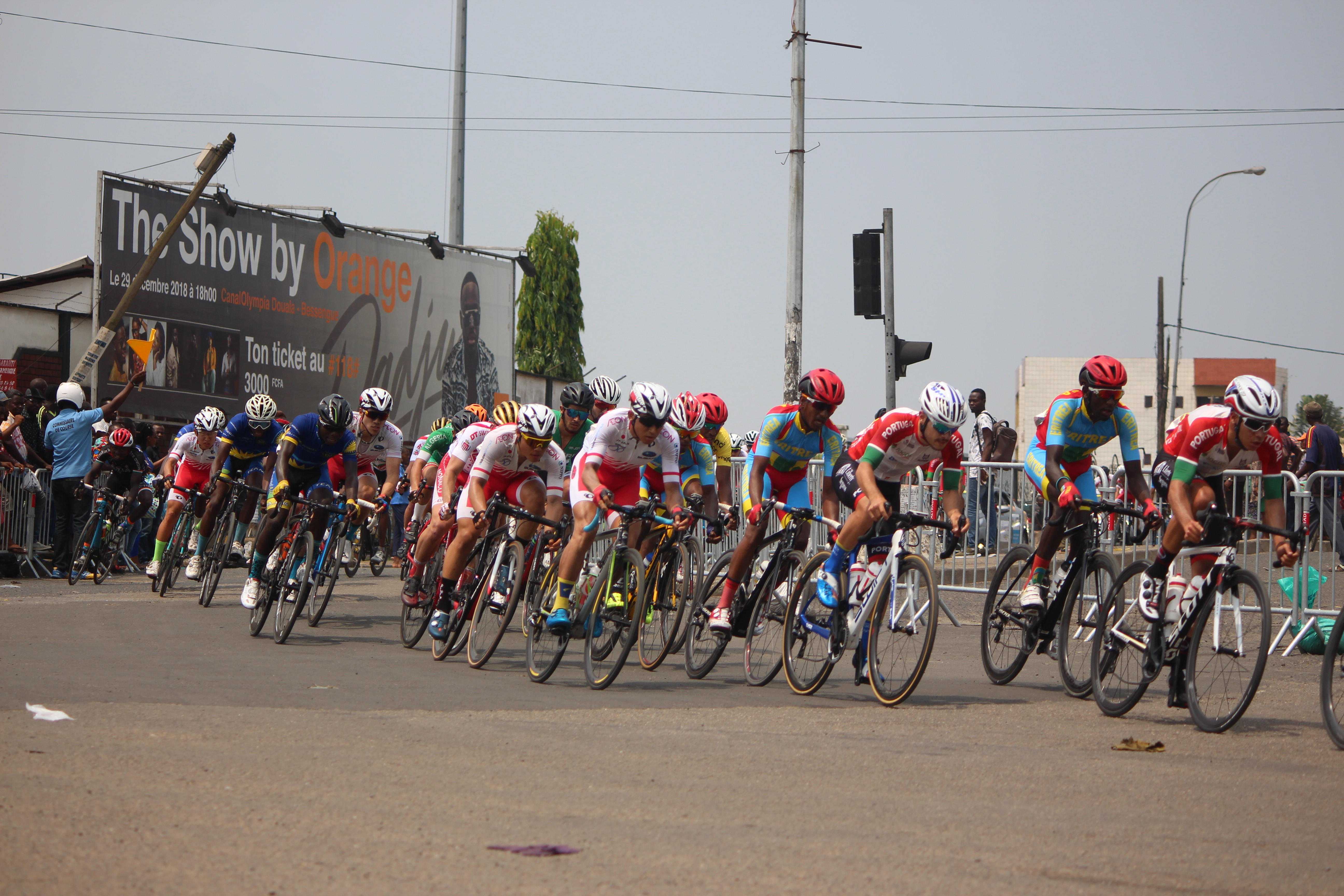 This is an image with the theme "Play" from: Cameroon